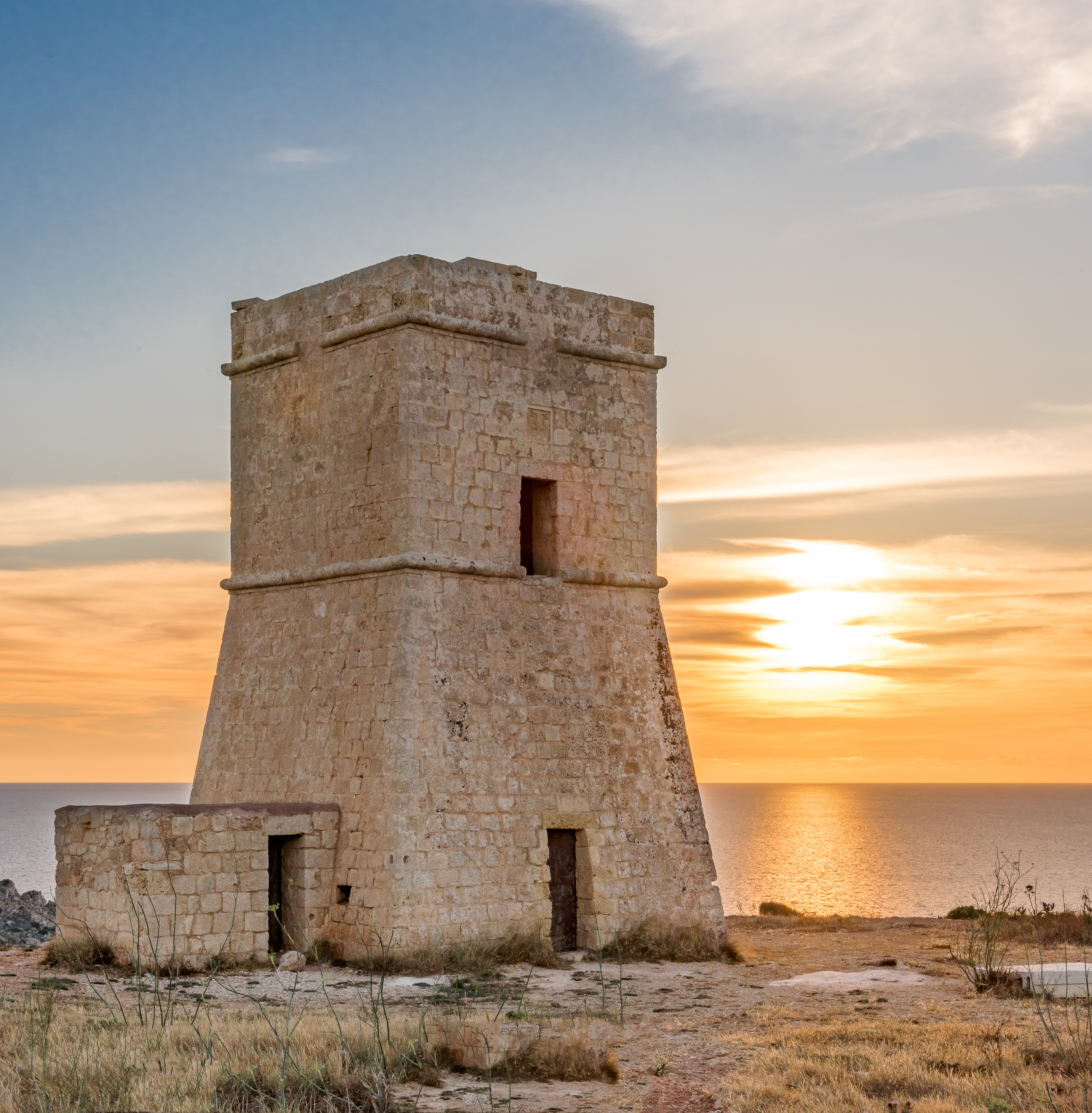 This media is about Maltese cultural property with inventory number 00058.